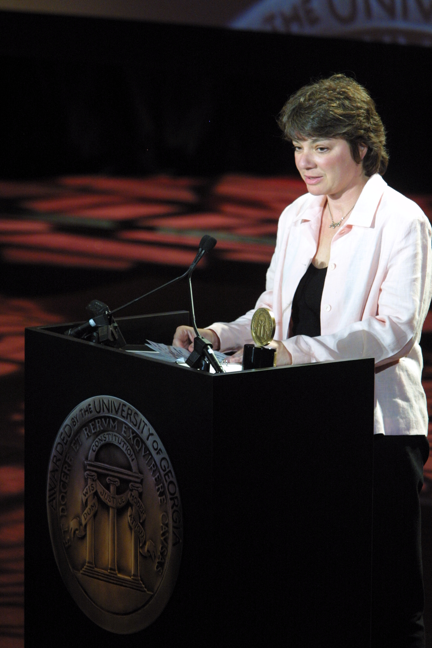 PHOTO CREDIT: ANDERS KRUSBERG / PEABODY AWARDS Karen Levine, 61st Annual Peabody Awards Luncheon Waldorf=Astoria Hotel May 20, 2002